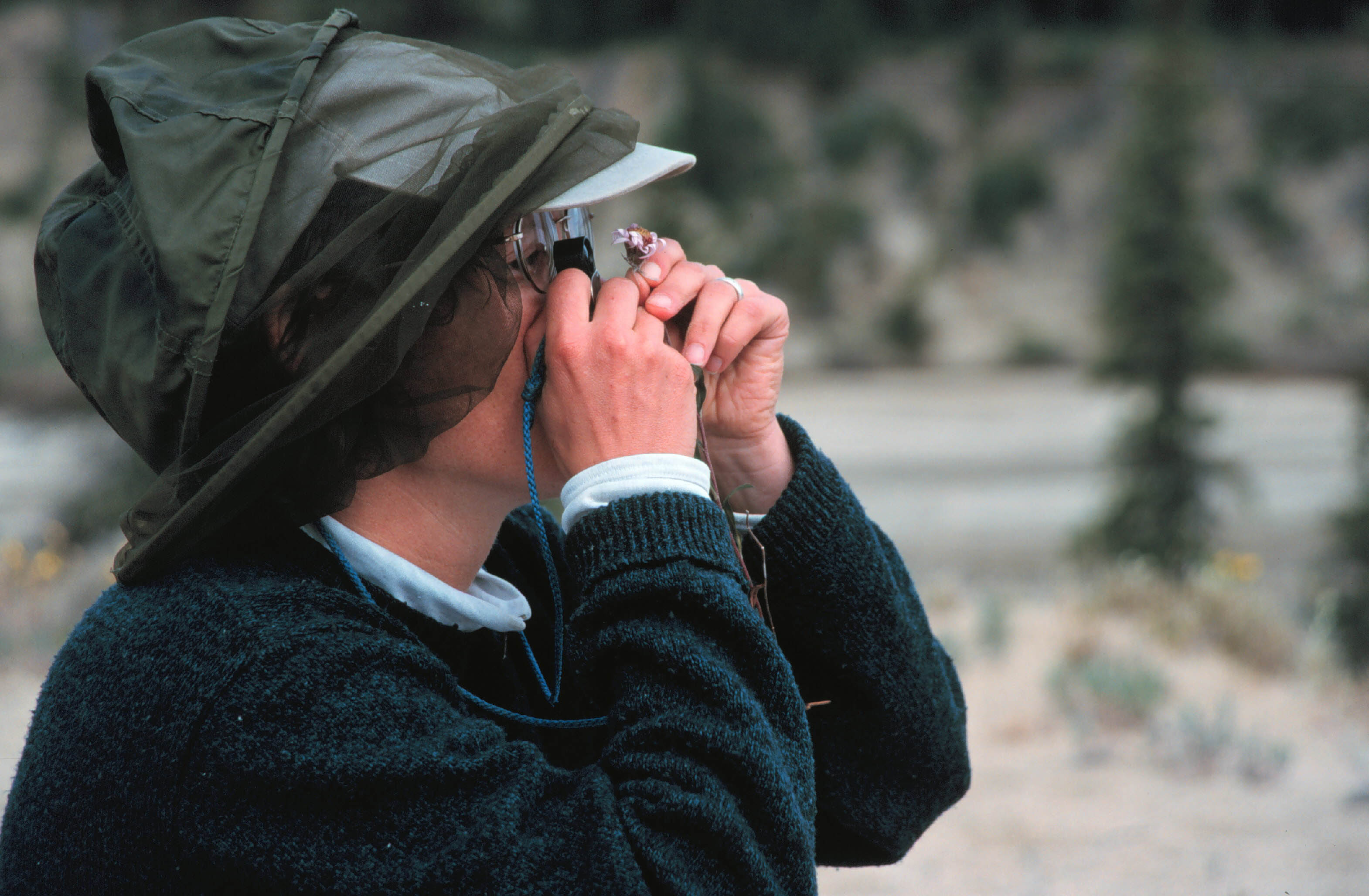 A botanist examines a plant with a hand lens (known as a loupe) to examine the tiny details that will help her decide what plant species she is holding. Close view of a person examining a flower.